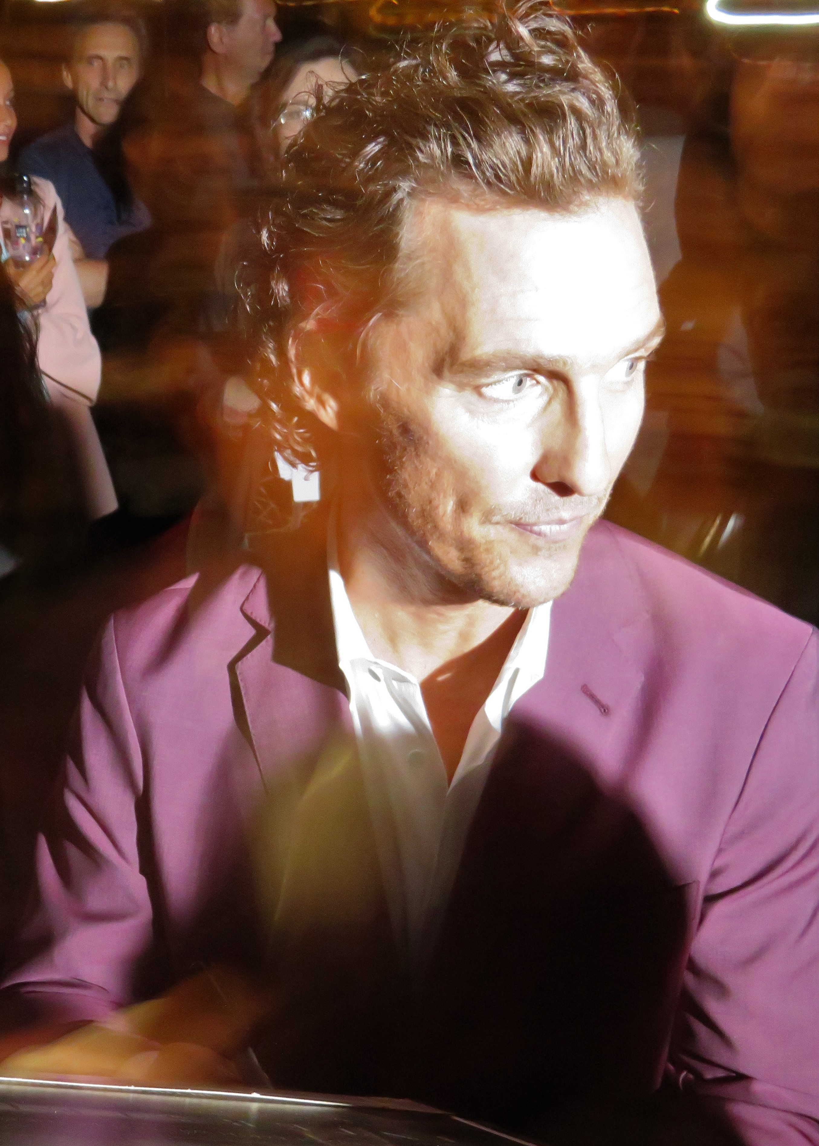 Matthew McConaughey at the premiere of White Boy Rick, 2018 Toronto Film Festival.